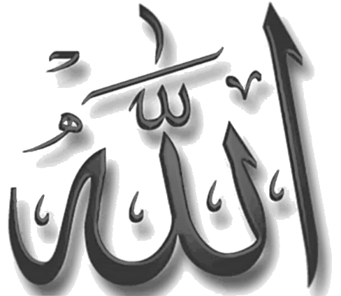 This is simple Arabic calligraphy of Allah's name (God's name) written in Arabic language. ( Art correspondence in Arabic script )